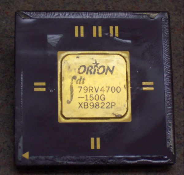 Picture of an IDT Orion 4700 chip out of a Cisco WS-X5530 supervisor engine.